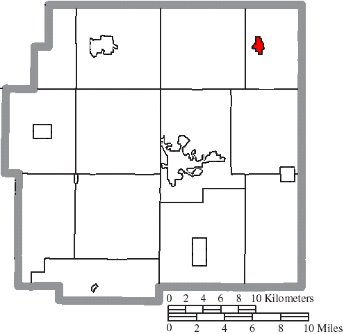 Map of the municipal and township boundaries of Wyandot County, Ohio, United States, as of the 2000 census, with the location of the village of Sycamore highlighted. Township borders are shown only in unincorporated areas in order to differentiate incorporated and unincorporated areas more clearly.